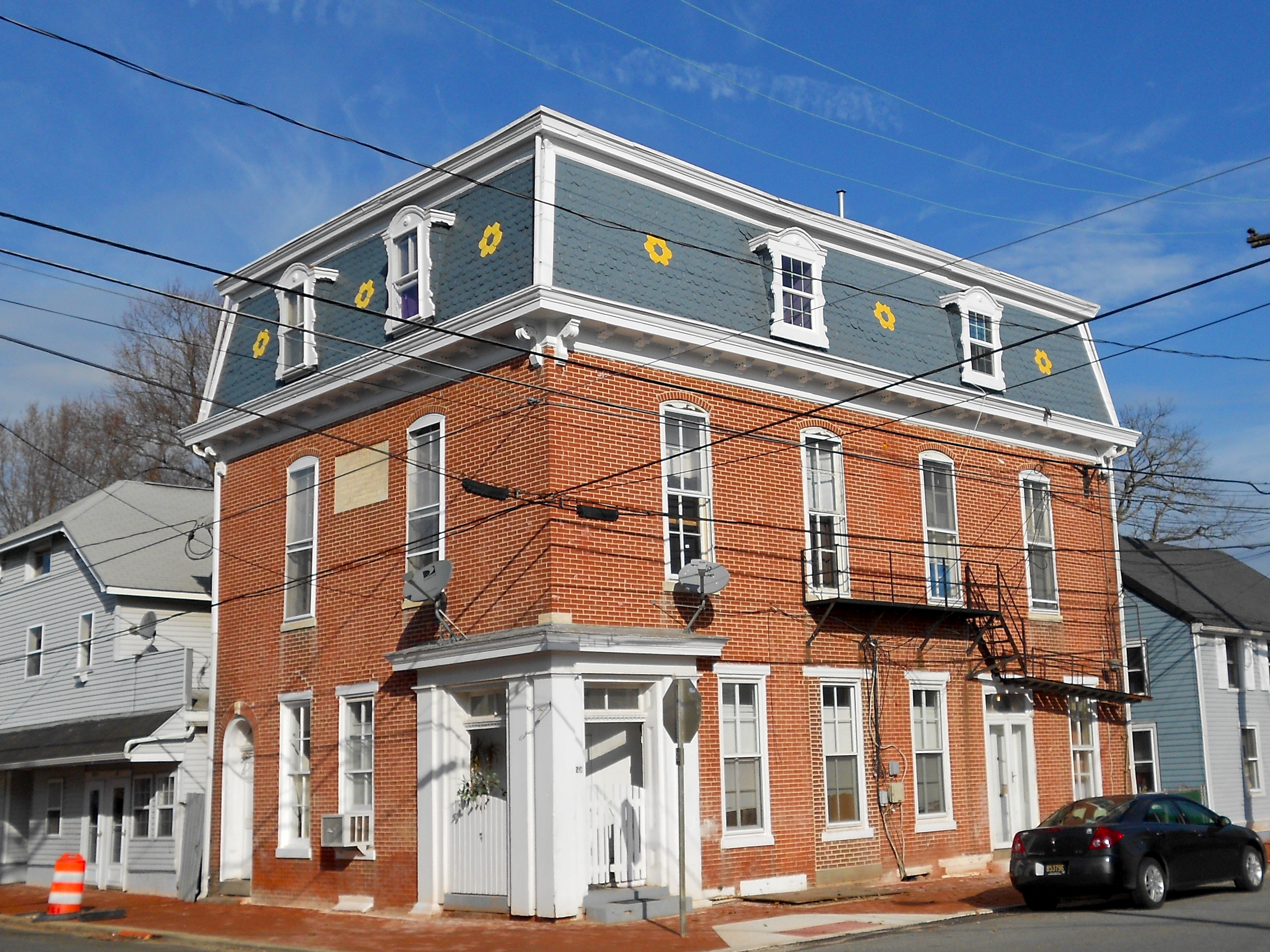 Odd Fellows Lodge (1875) at the corner of Main and Delaware Streets in St. Georges, Delaware. In the North Saint Georges Historic District. ON the NRHP since August 22, 1995. The historic district runs roughly along Main, Broad, Delaware, and Church Sts. in Red Lion Hundred, St. Georges, DE